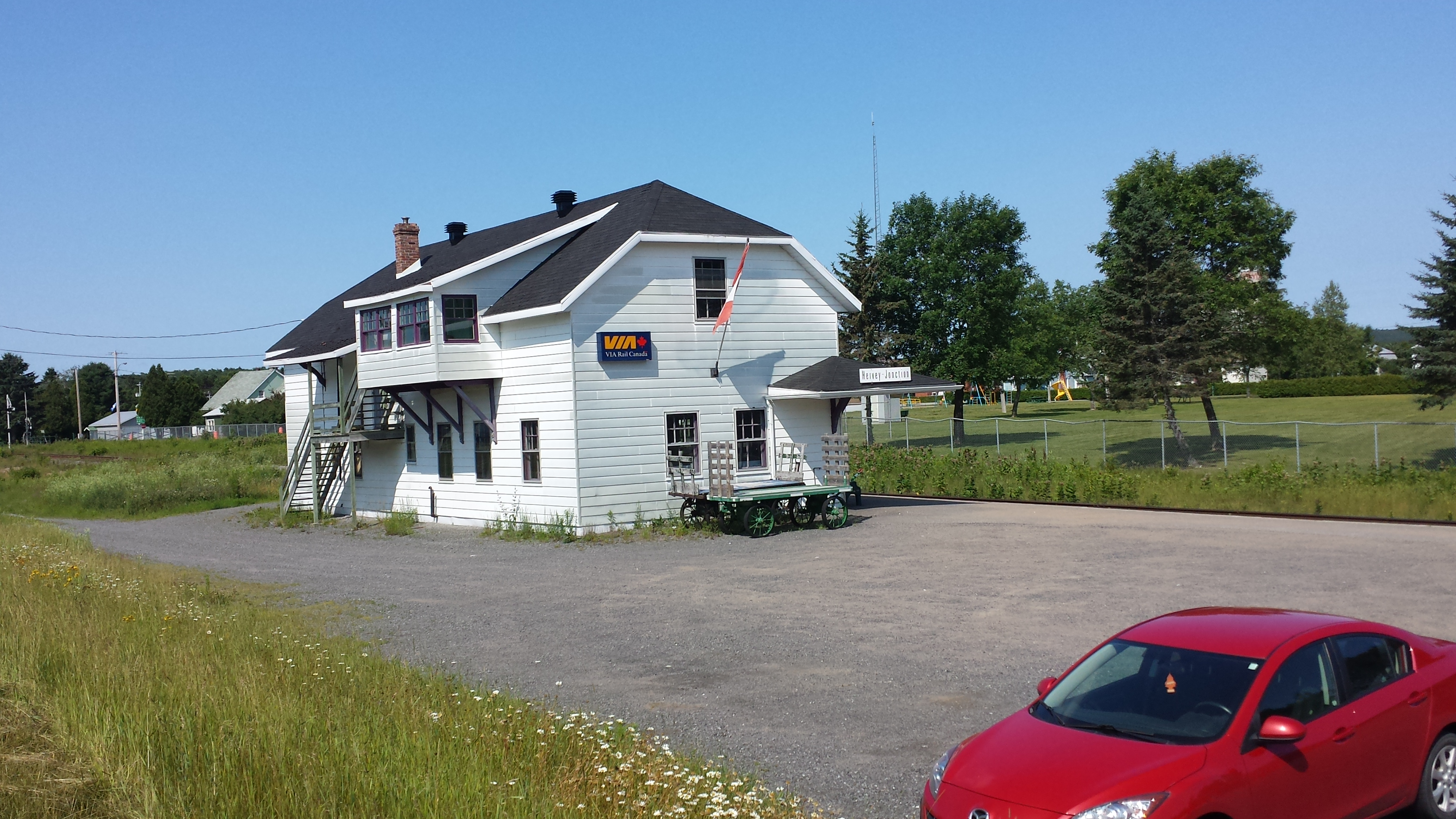 Train station of Hervey-Junction (Mauricie, Quebec, Canada) located on the new site at the opposite the Catholic chapel.